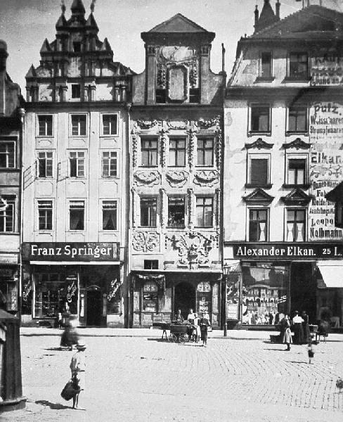 Part of the "Ring" in Neisse - nowadays Nysa around 1920.